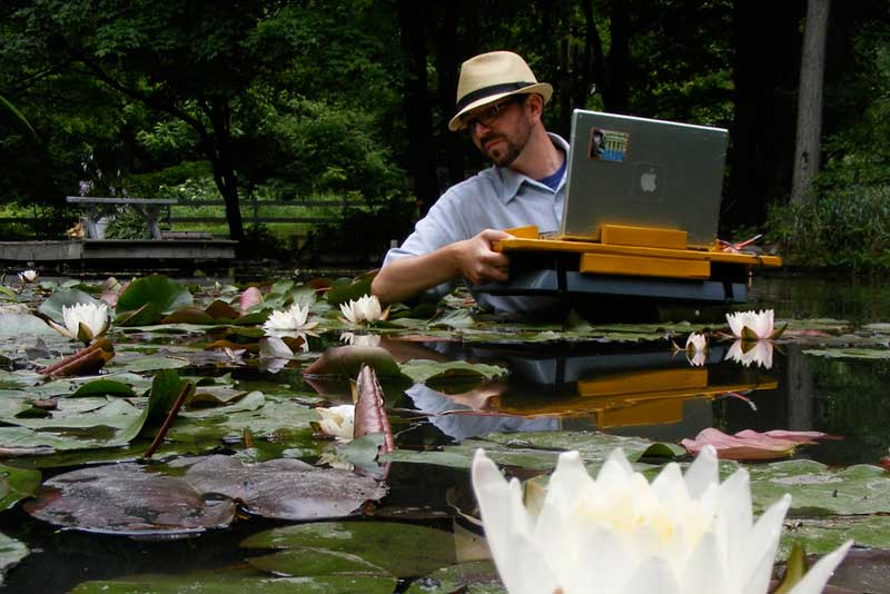 Nathaniel Stern scanning lilies in South Bend, Indiana